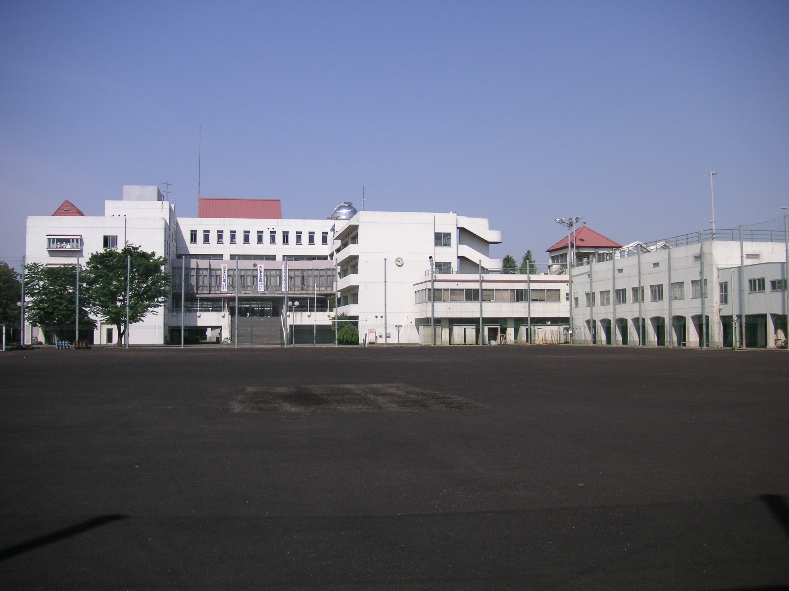 Tokyo Metropolitan Fuji High School